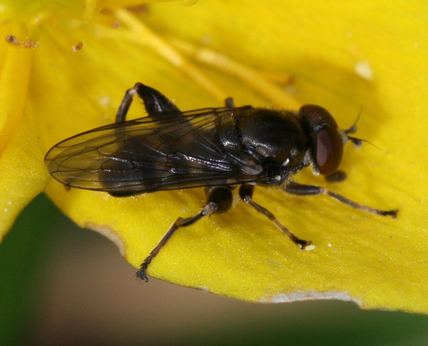 Chalcosyrphus nemorum - a species of hoverfly